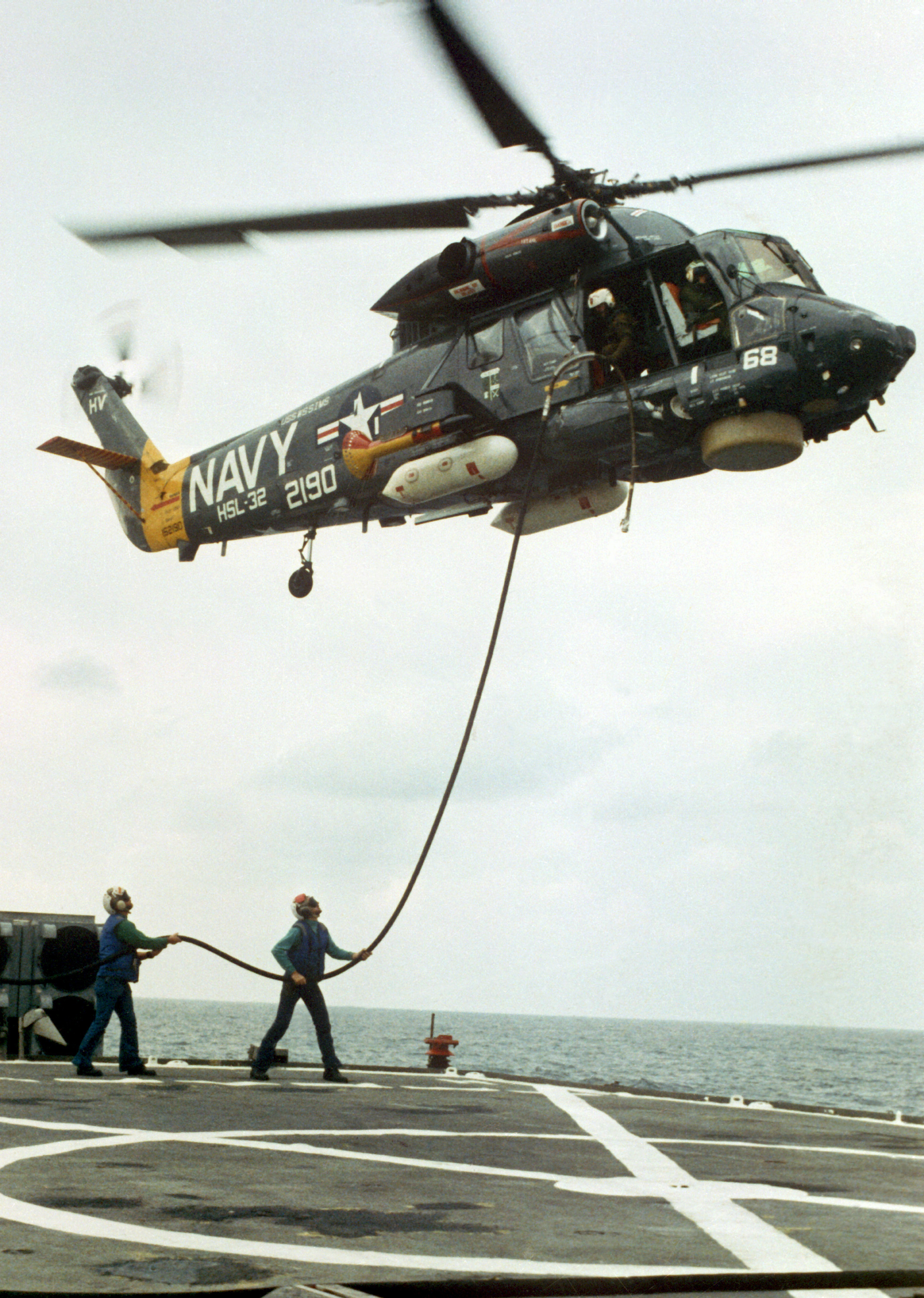 A U.S. Navy Kaman SH-2F Seasprite helicopter (BuNo 152190) from Light Helicopter Anti-submarine Squadron 32 (HSL-32) during a HIFR (Helicopter In-Flight Refueling) from a Knox-class frigate. HIFR is a variation of aerial refueling when a naval helicopter approaches a warship and receives fuel through the cabin while hovering.